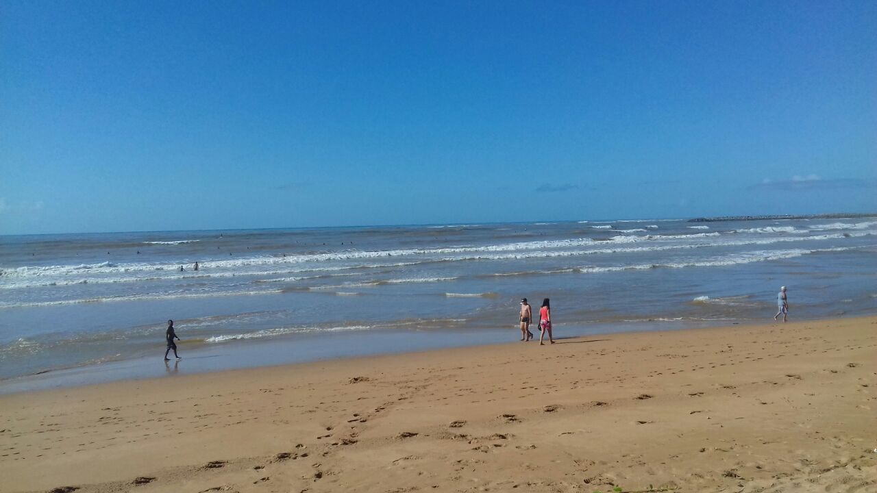 People surfing on the beach